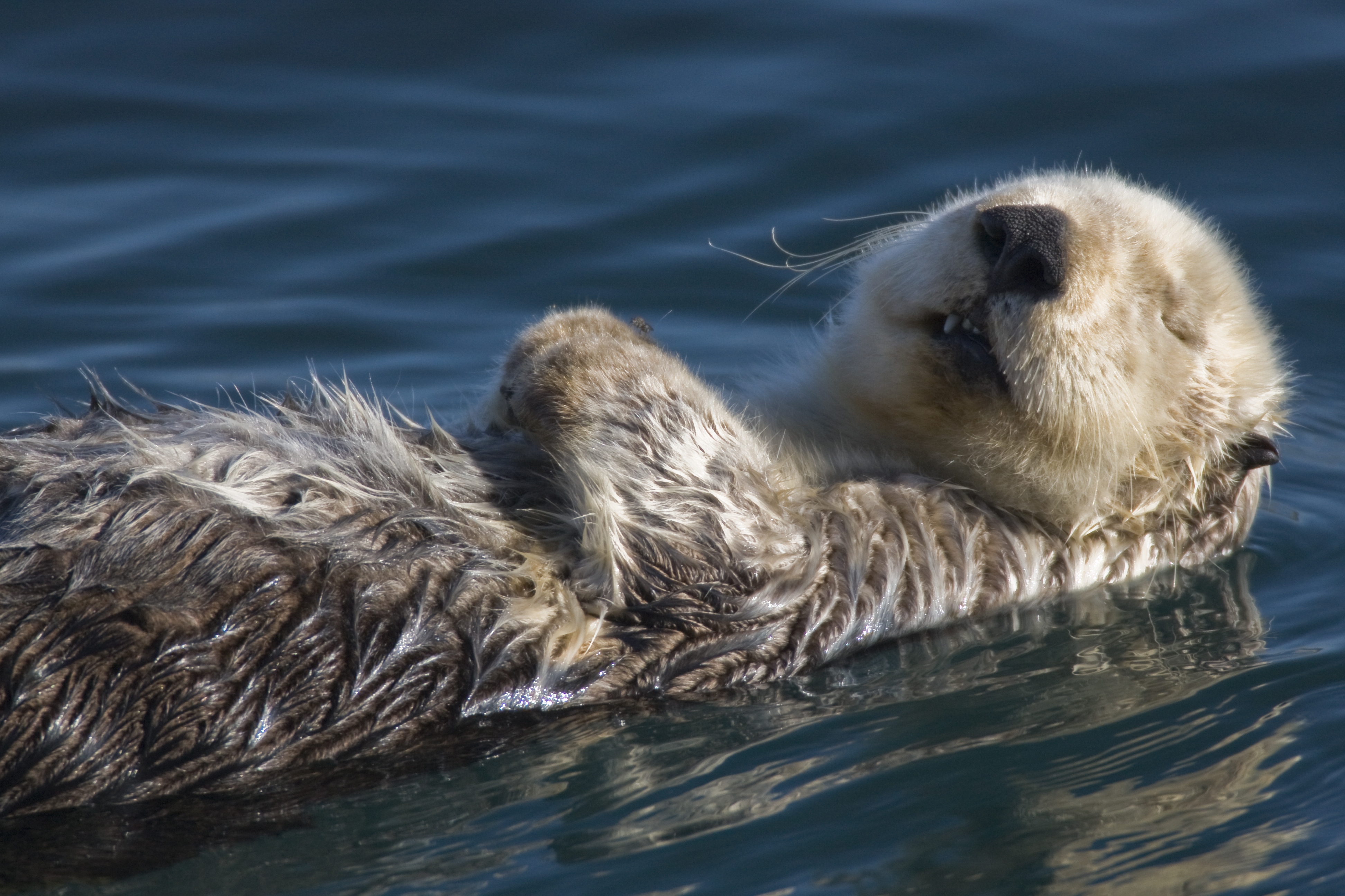 Adult Sea Otter (Enhydra lutris) in Morro Bay, CA drifts out of the harbor on the ebb tide 14dec2007 Friday 14 Dec. 2007 - Photo by Mike Baird, Canon 1D Mark III with 600mm IS lens w/ 2X II TE and polarizer